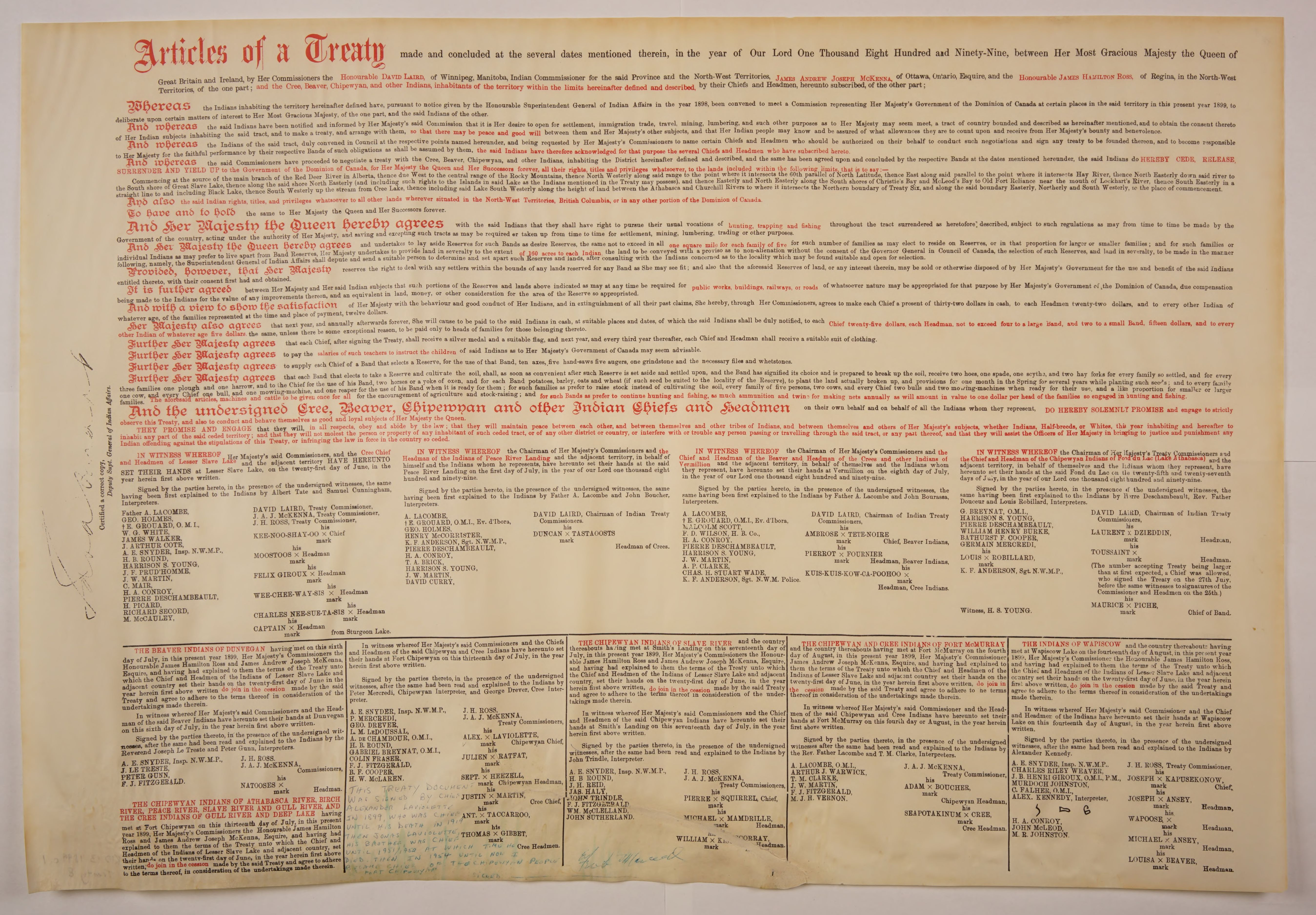 Articles of a treaty made and concluded at the several dates mentioned therein, in the year of our Lord one thousand eight hundred and ninety-nine, between Her Most Gracious Majesty the Queen of Great Britain and Ireland, by Her Commissioners the Honourable David Laird, of Winnipeg, Manitoba, Indian Commissioner for the said Province and the North-West Territories, James Andrew Joseph McKenna, of Ottawa, Ontario, Esquire, and the Honourable James Hamilton Ross, of Regina, in the North-West Territories, of the one part, and the Cree, Beaver, Chipewyan, and other Indians, inhabitants of the territory within the limits hereinafter defined and described, by their Chiefs and Headmen, hereunto subscribed, of the other part. Signed: At Lesser Slave Lake, on the twenty-first day of June, in the year herein first written above; at the Peace River Landing on the first day of July, in the year of our Lord one thousand eight hundred and ninety-nine; at Vermillion on the eighth day of July, in the year of our Lord one thousand eight hundred and ninety-nine; at the said Fond du Lac on the twenty-fifth and twenty-seventy days of July, in the year of our Lord one thousand eight hundred and ninety-nine; at Dunvegan on this sixth day of July, in the year herein first above written; at Fort Chipewyan on this thirteenth day of July, in the year first above written; at Smith's Landing on this seventeenth day of July, in the year herein first above written; at Fort McMurray on this fourth day of August, in the year herein first above written; at Wapiscow Lake on this fourteenth day of August, in the year herein first above written. -- "Certified a correct copy." Presentation copy of the original, 1 sheet; 50 x 72 cm Printed on parchment. Text in black and red; blue and red border Date: [1899?] Other versions: University of Alberta Bruce Peel Special Collections call number: KID 13 1899 folio